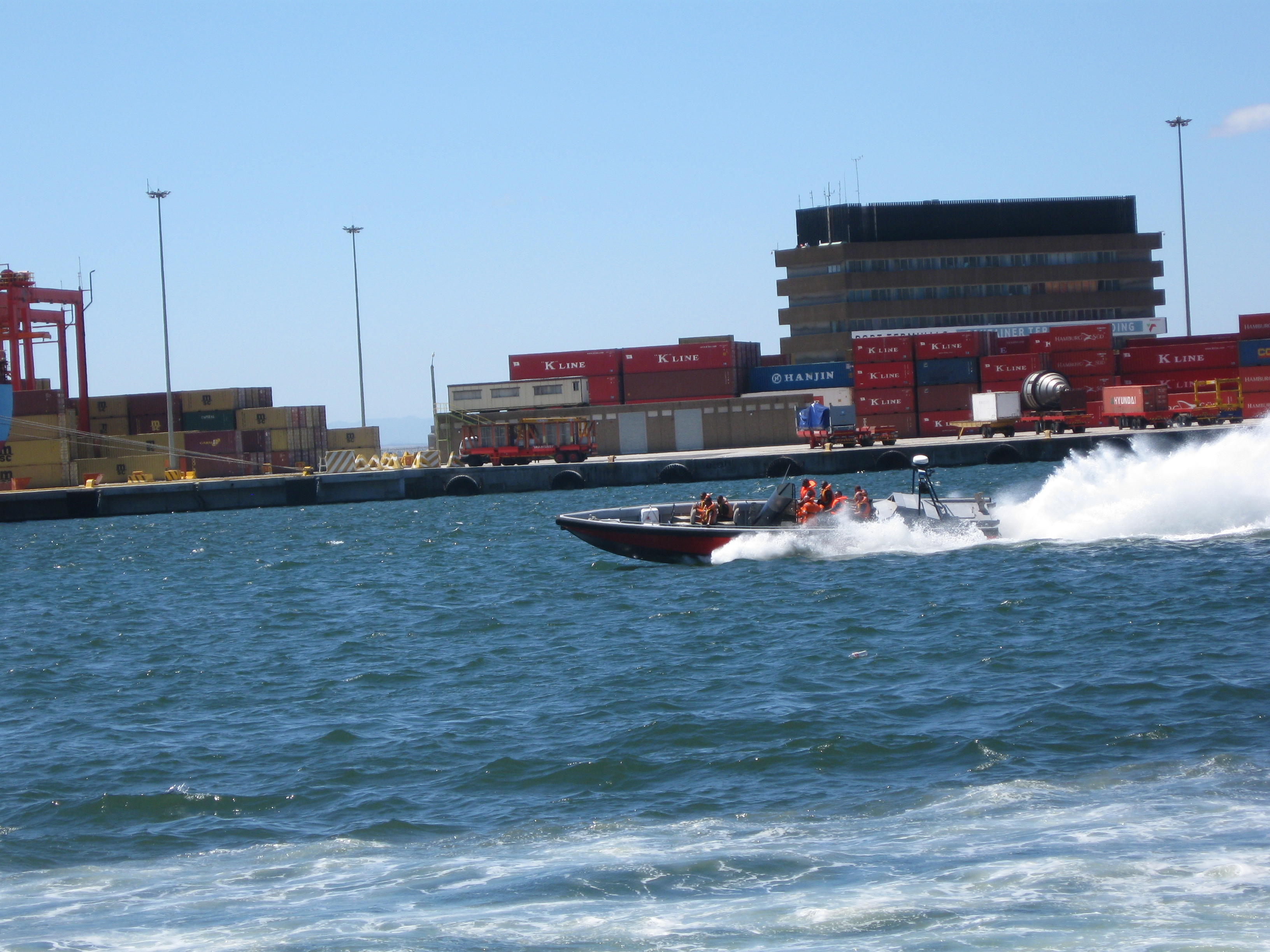 Accelerating after making sharp left turn in Cape Town harbour opposie Quay 500